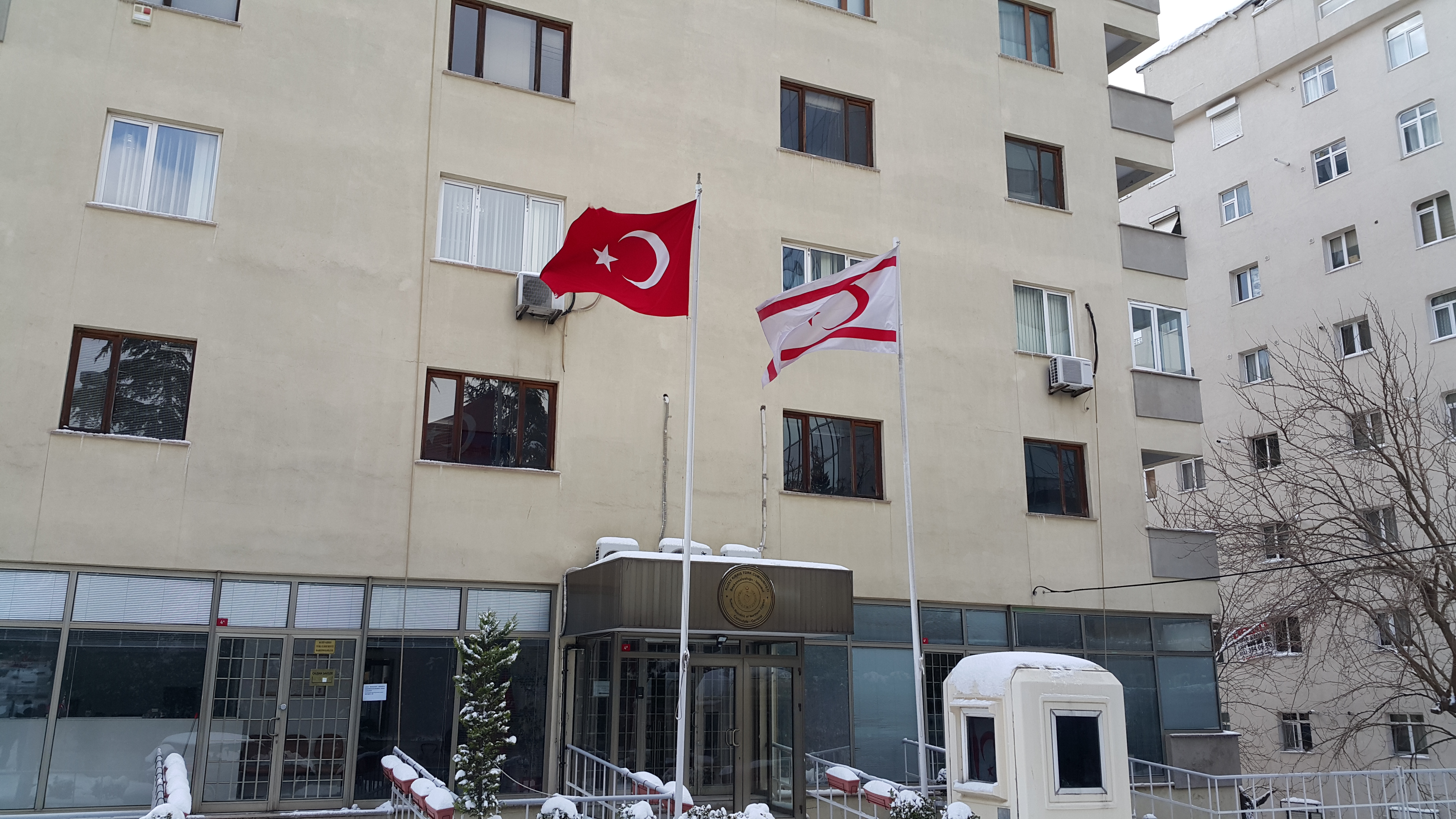 Consulate-General of Turkish Republic of Northern Cyprus in İstanbul, Turkey.